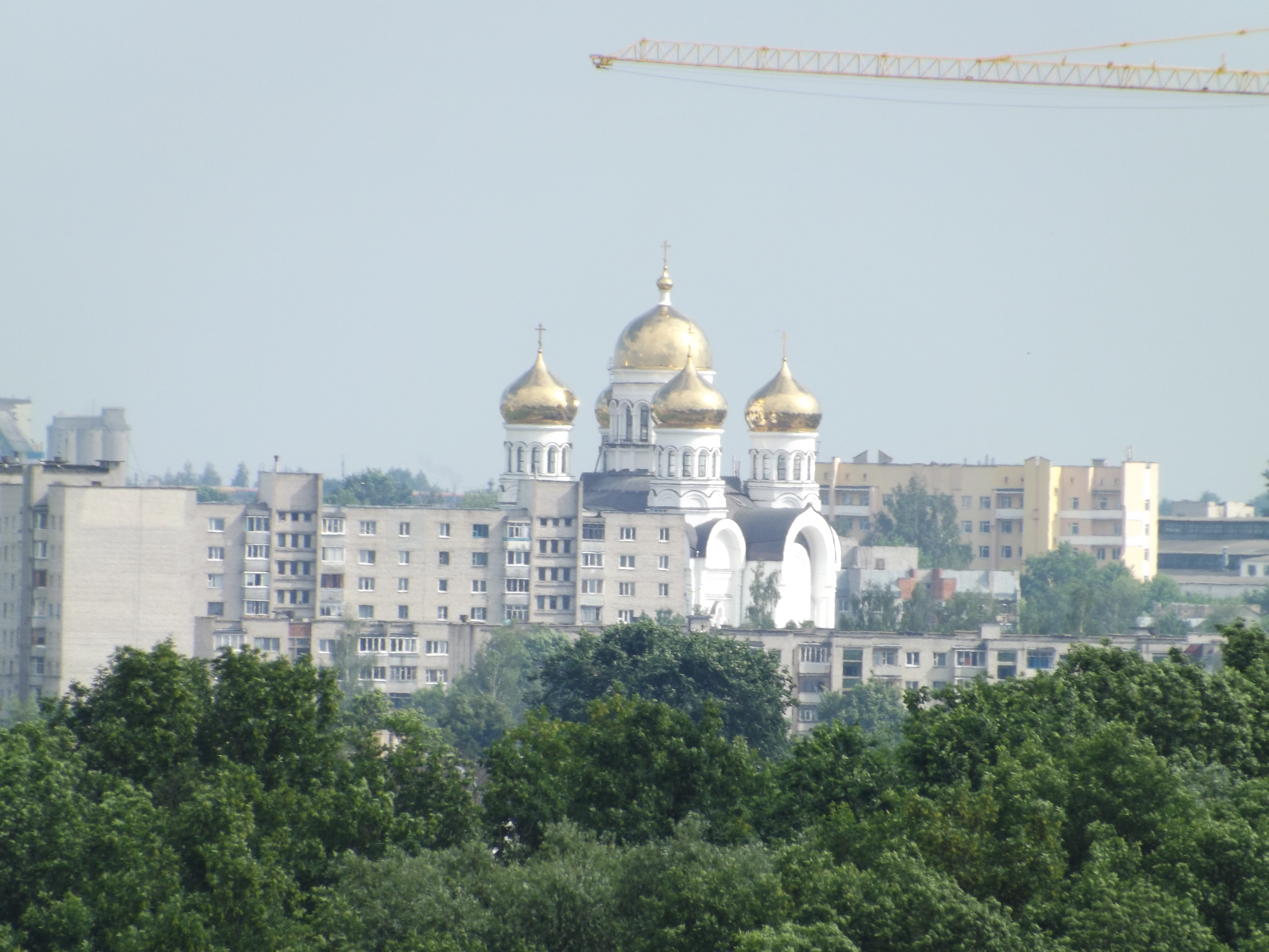 Kastryčnicki District, Mogilev, Belarus